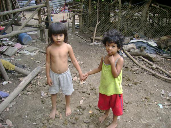 Picture of siblings living in extreme poverty in El Salvador.